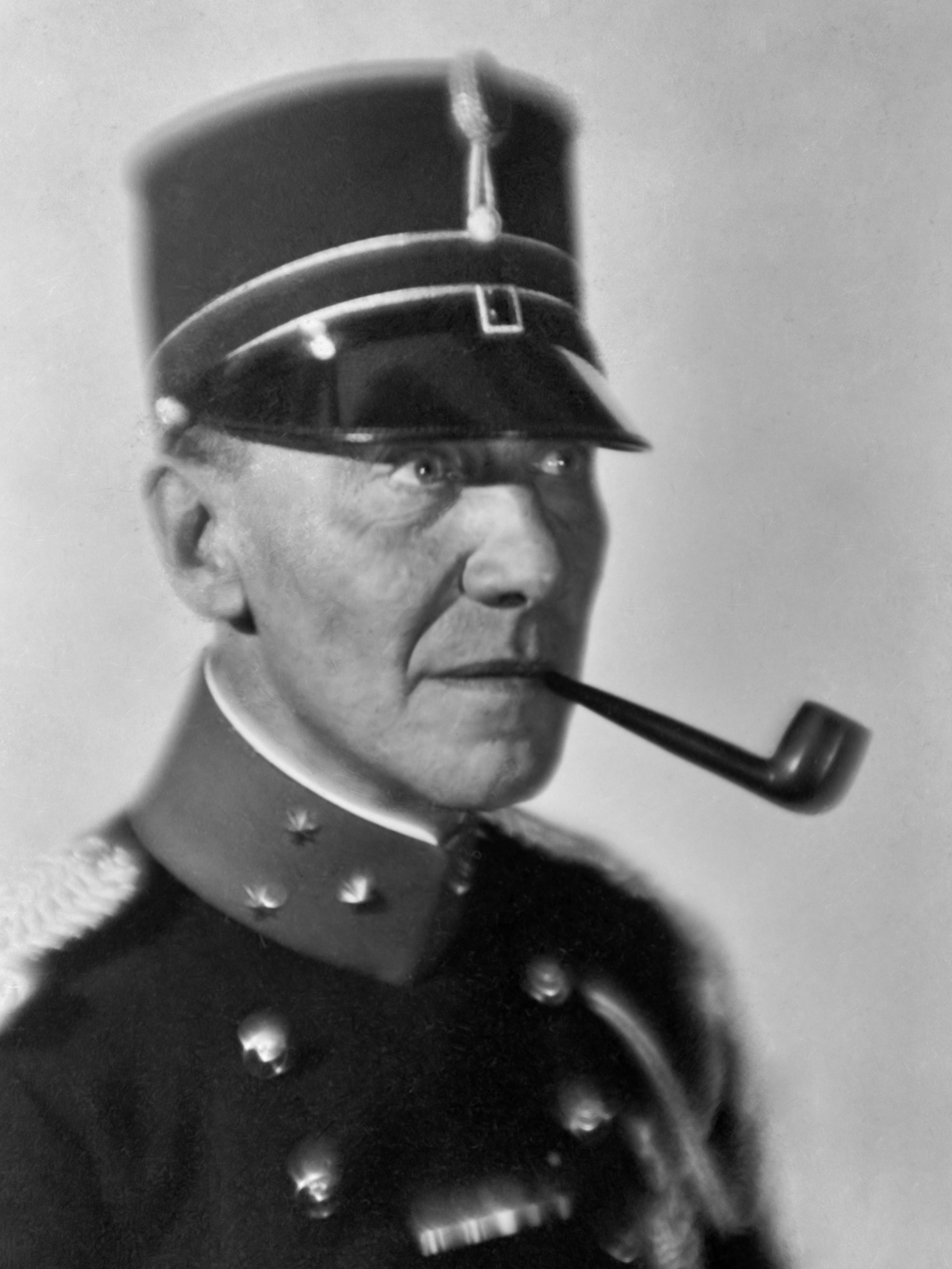 P.M.R. Versteegh